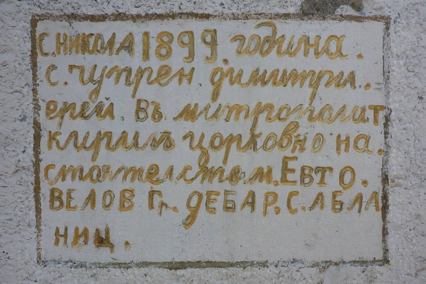 Chuprene Tower Inscription